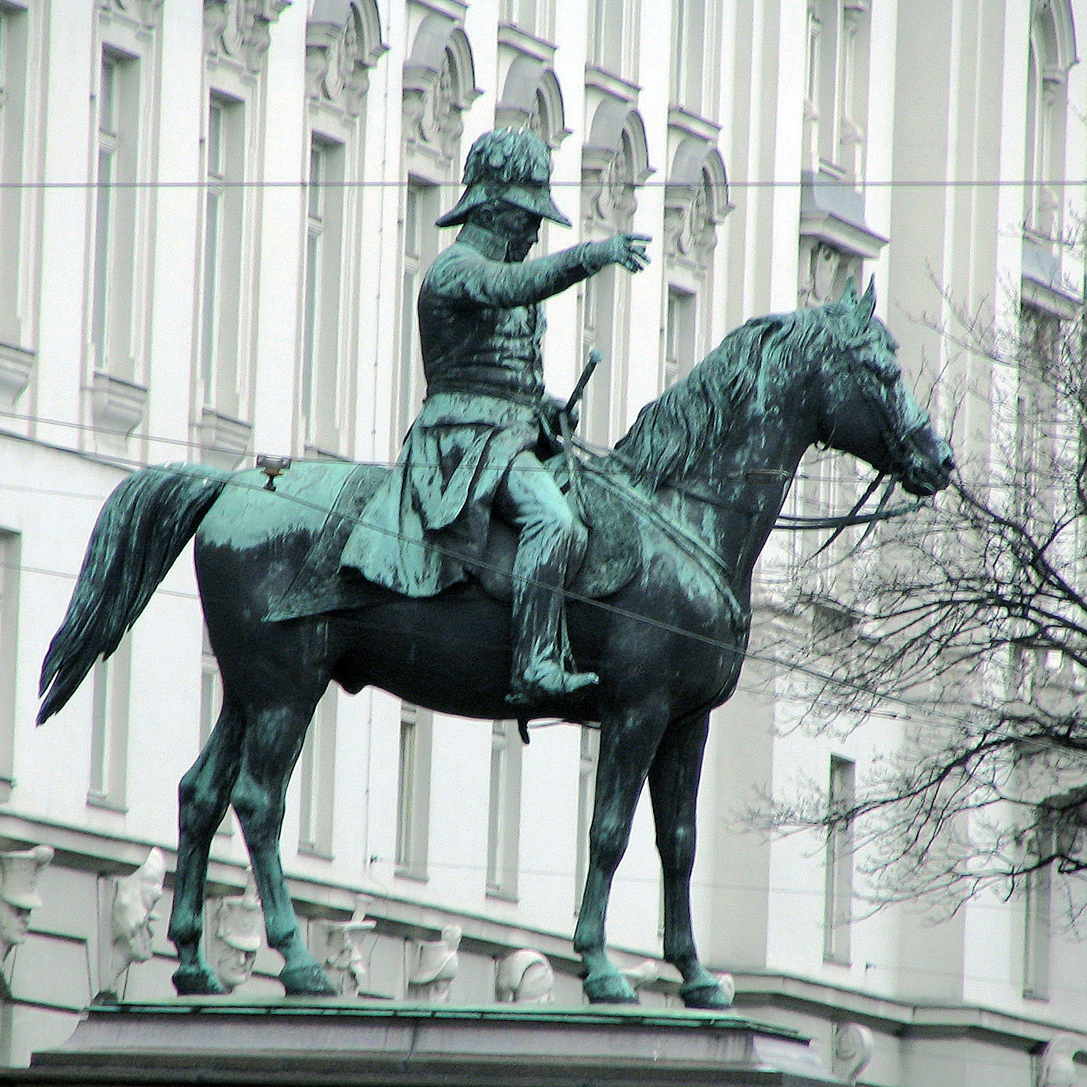 Feldmarschall Radetzky monument, Wien